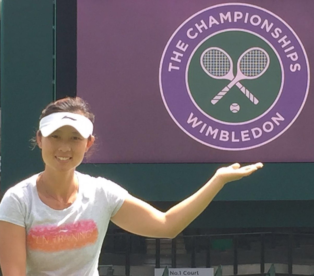 Yifan Xu 2015 Wimbledon